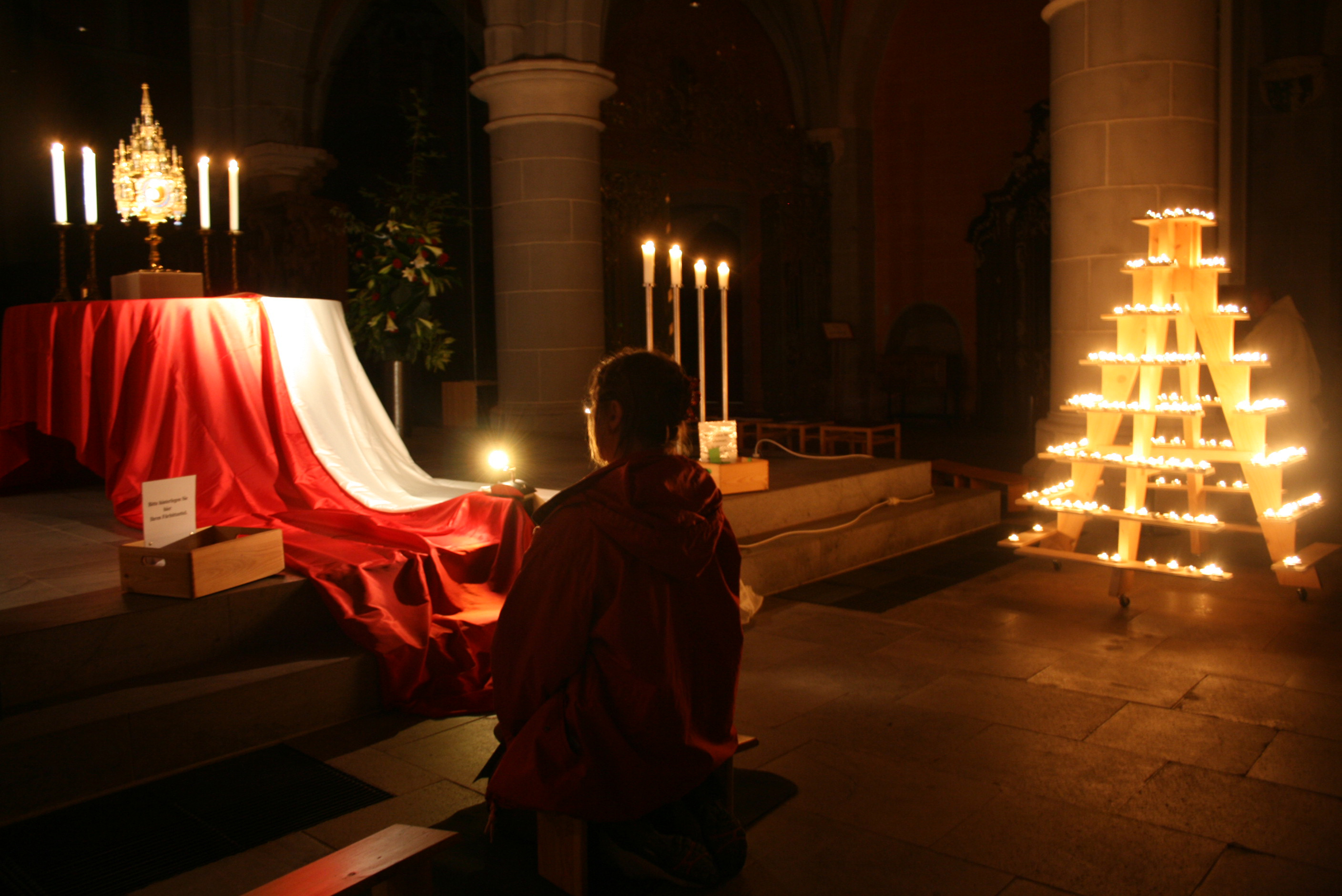 Anbetung bei Nightfever in der Abtei Marienstatt